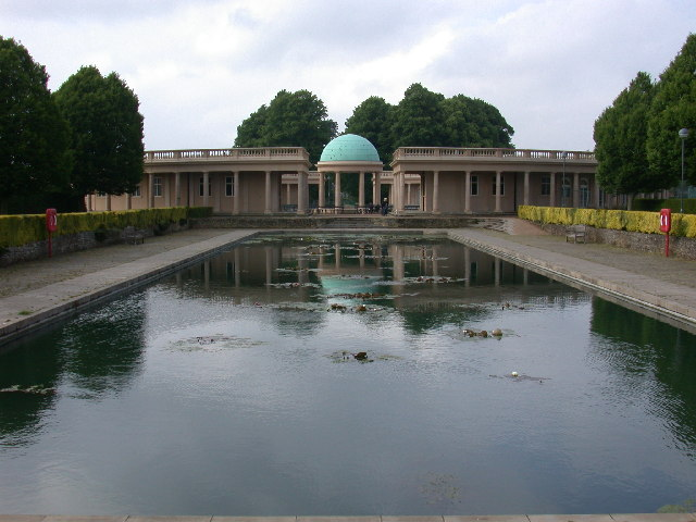 Eaton Park Bandstand. Eaton Park was created during the 1920s, using the labour of people left unemployed by the depression. In the centre of the park is the bandstand and pavilion, recently restored.